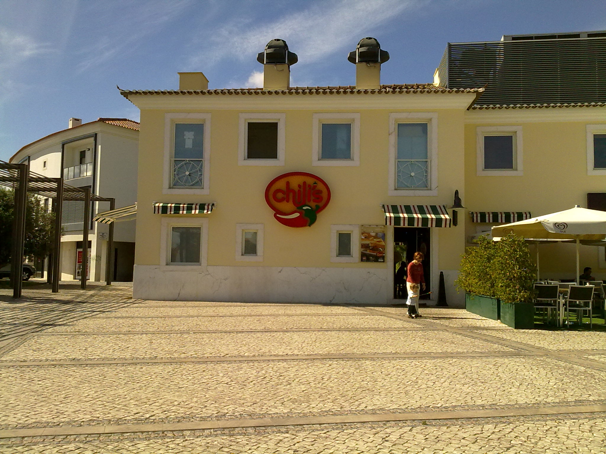 Chili's restaurante at Telheiras, Lisbon, Portugal.